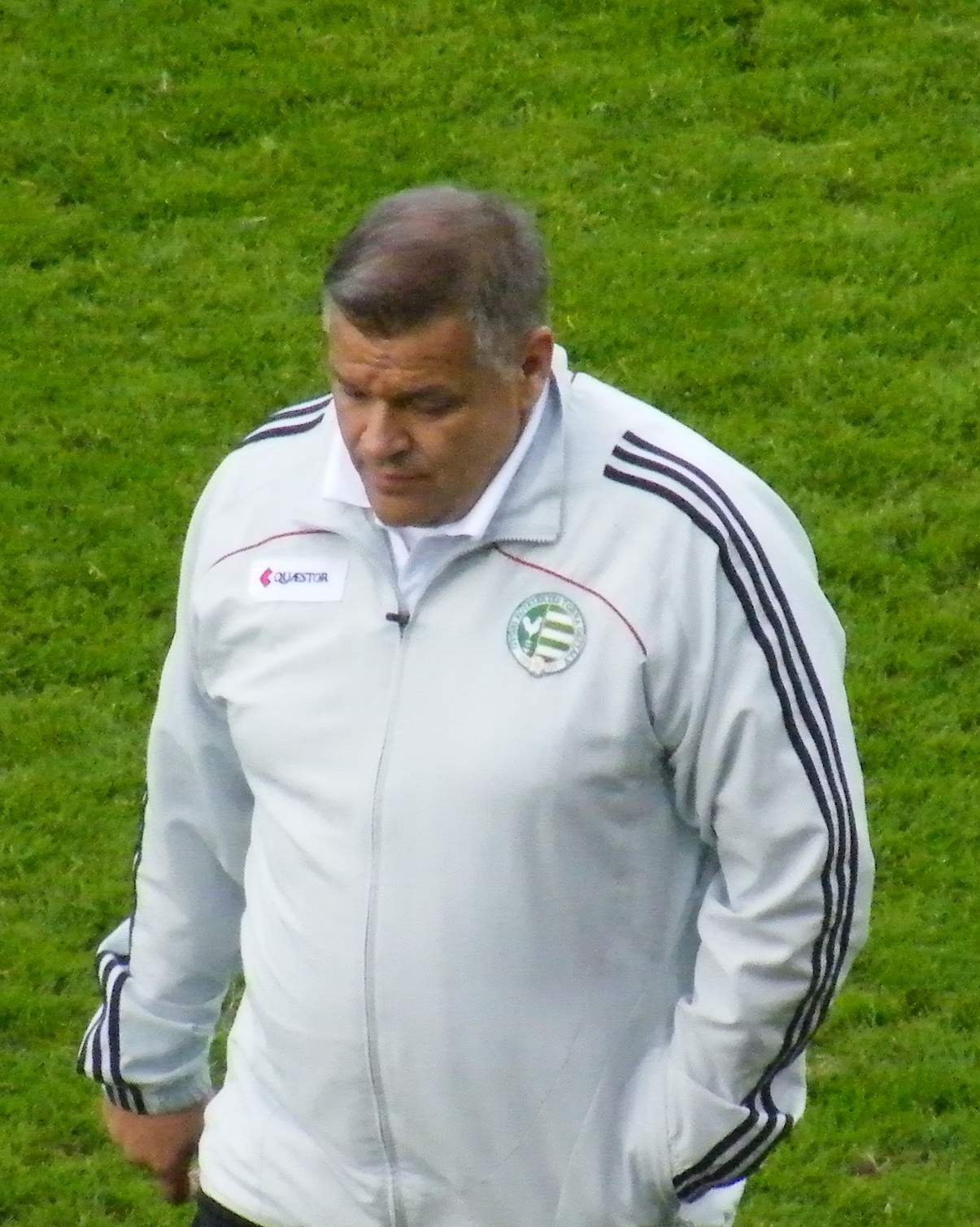 Dragoljub Bekvalac football coach